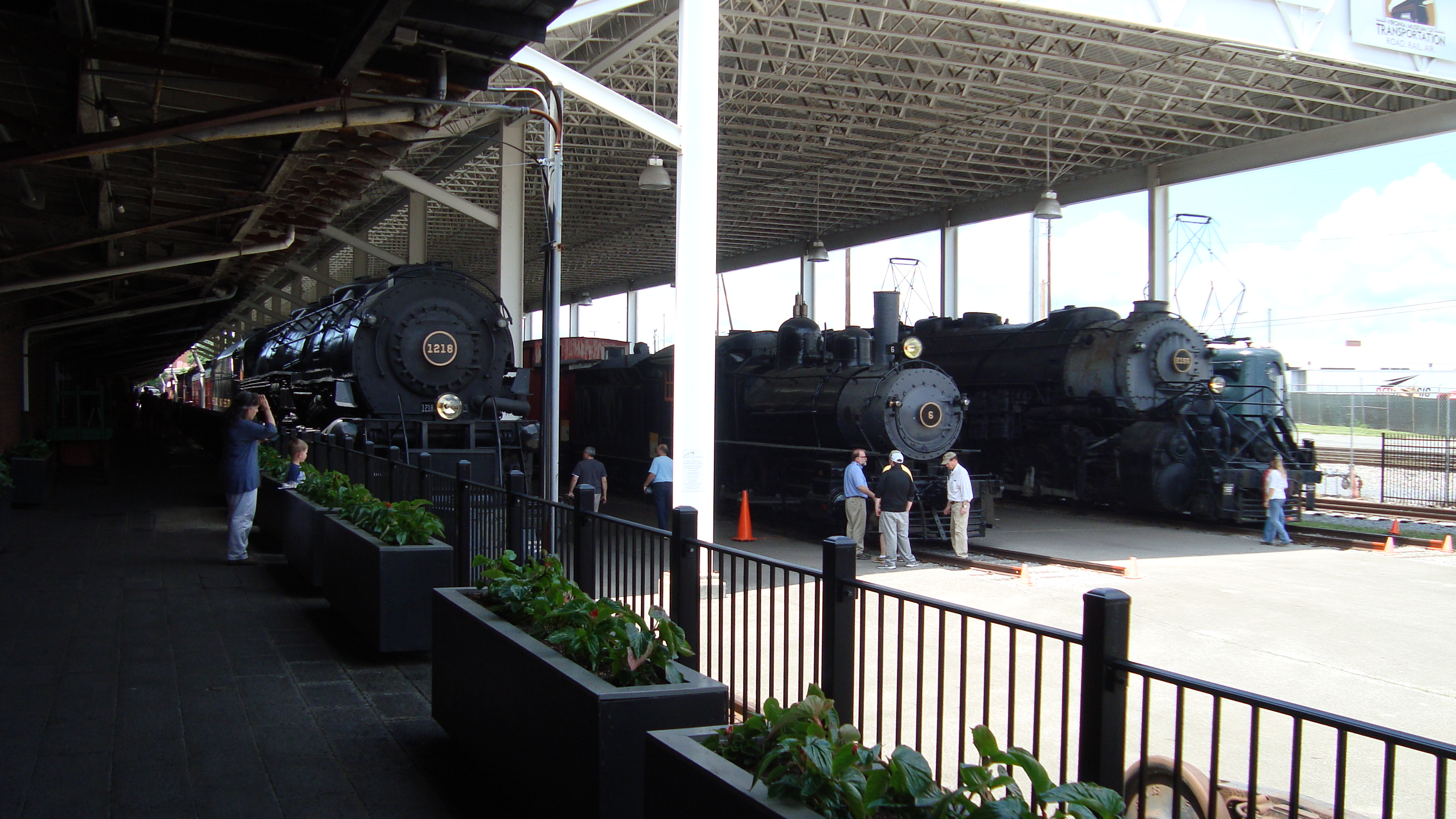 1218, 6, and 2156